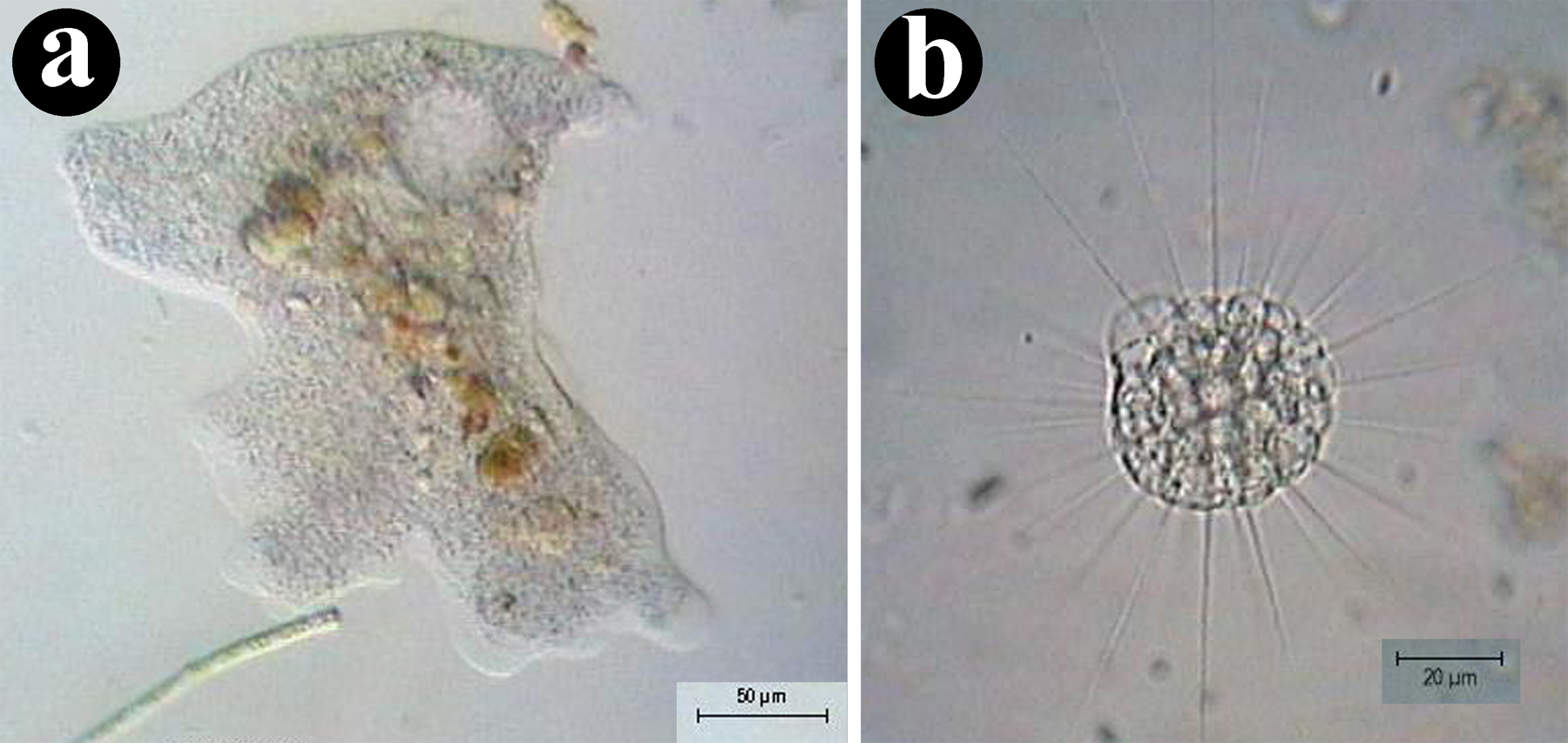 Composite photo showing asymmetrical and spherical symmetry